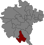 Location of les Planes d'Hostoles in Garrotxa